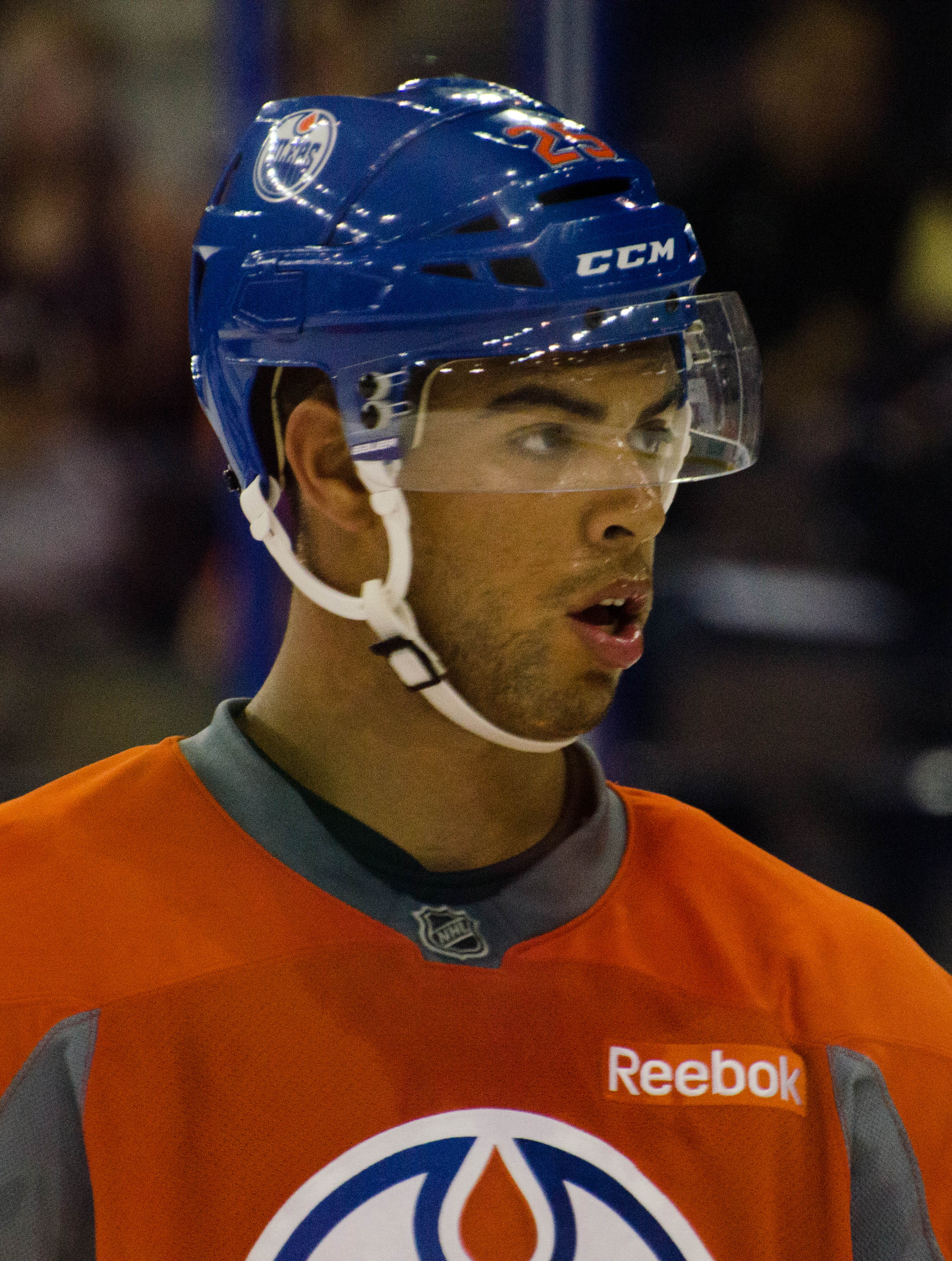 Darnell Nurse at the 2015 Edmonton Oilers Development Camp, July 4, 2015.